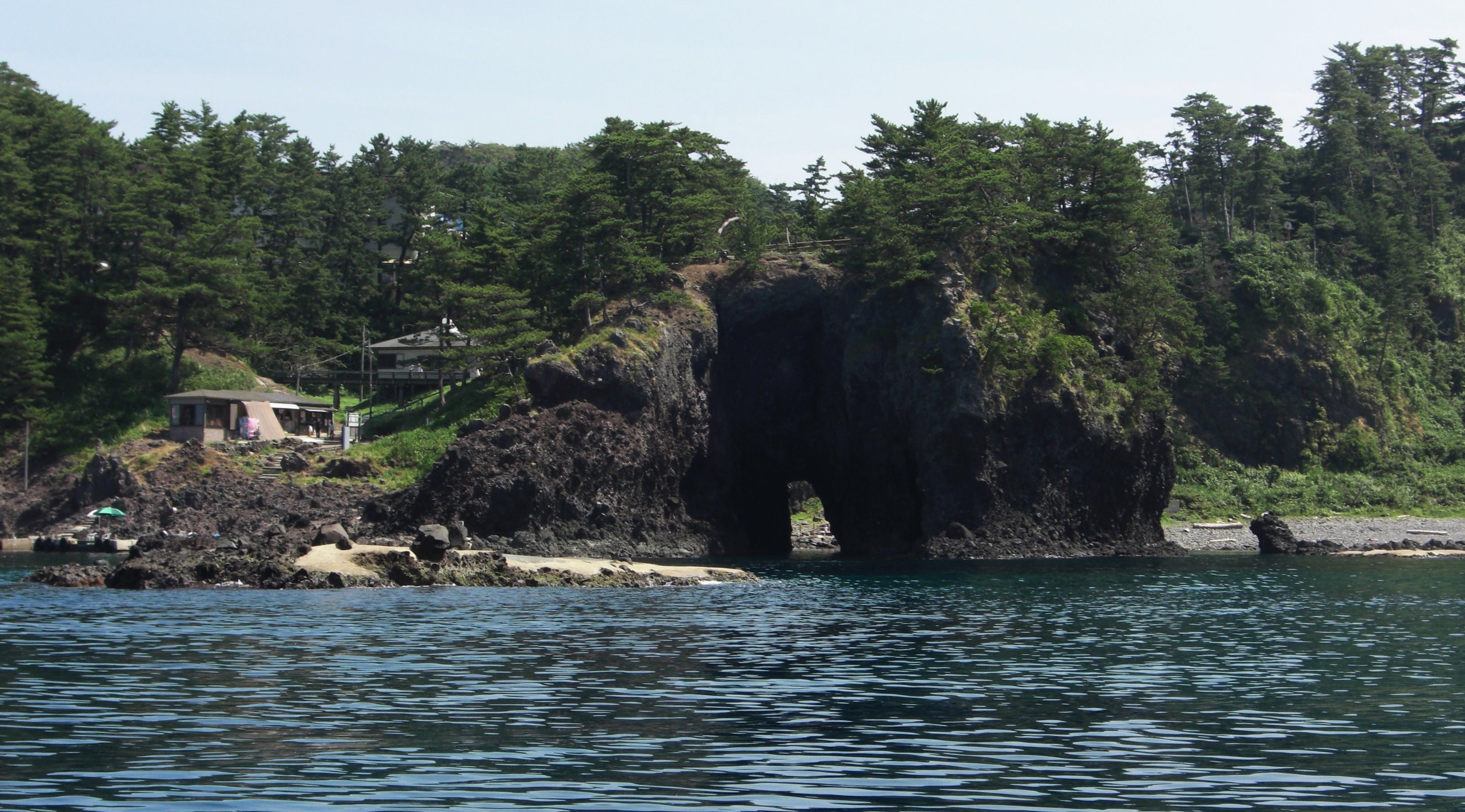 The photo of Ganmon, Ishikawa-ken